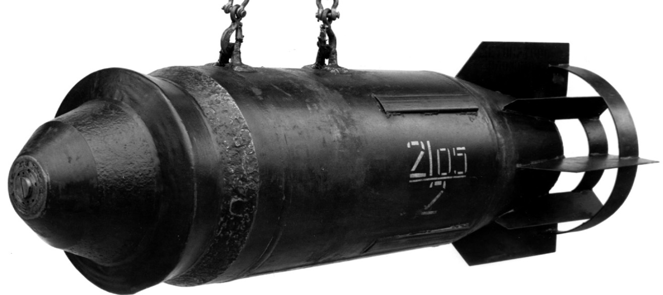 A Russian FAB-500 M54 General-purpose bomb.